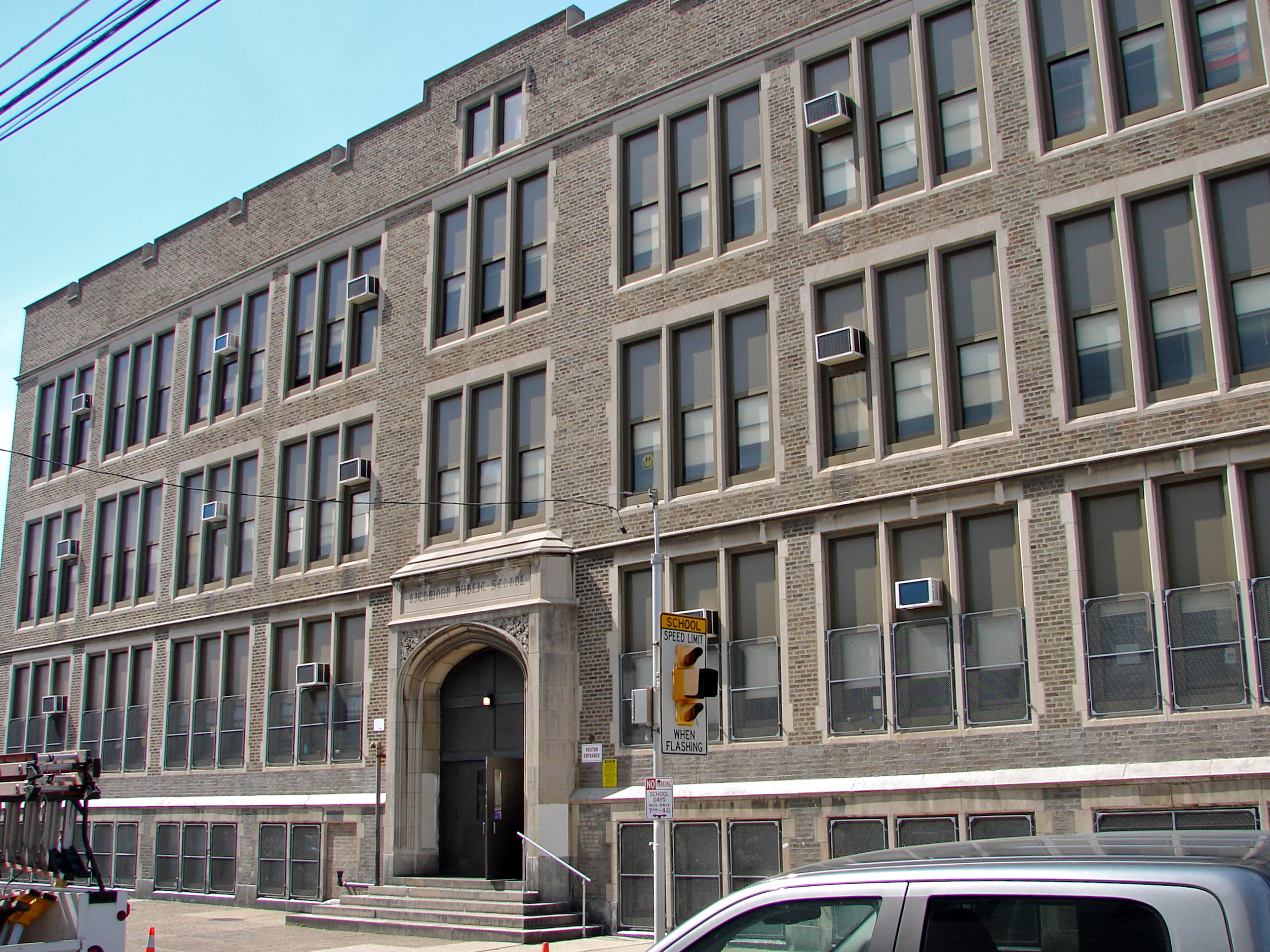 Richmond School in Philadelphia on the NRHP since November 18, 1988. At 2944 Belgrade Street in the Port Richmond neighborhood of Northeast Philly.